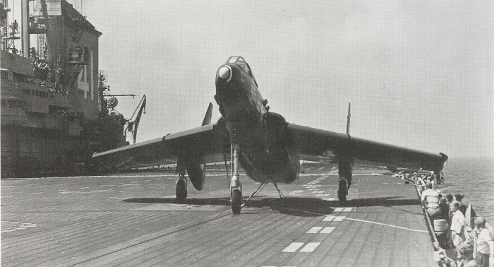 The first production Vought F7U-1 Cutlass (BuNo 124415) on the port catapult of the aircraft carrier USS Midway (CVB-41) on 23 July 1951. The plane was piloted by Lt.Cmdr. E.L. Feightner. After tests at the NATC Patuxent River the F7U-1 was used for carrier qualifications. It was the only test of a F7U-1 on a carrier, as the pilot's visibility was so poor that he could not see the flight deck during the landing. The Landing Signal Officer had to give Feightner the signal to cut the engine, but this method almost led to a ramp strike.